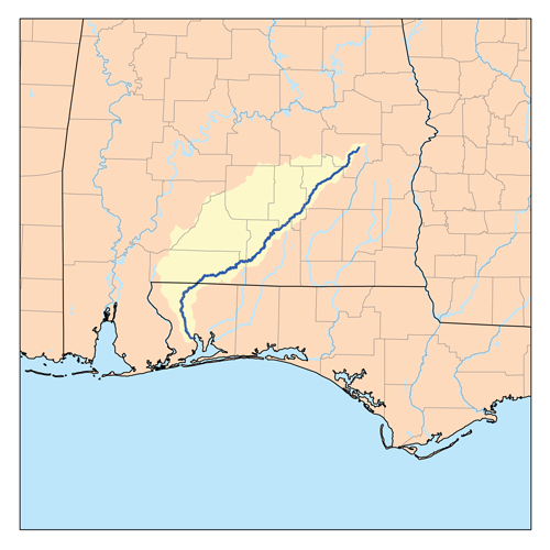 This is a map of the Conecuh/Escambia River watershed. I, Karl Musser, created it based on USGS data.